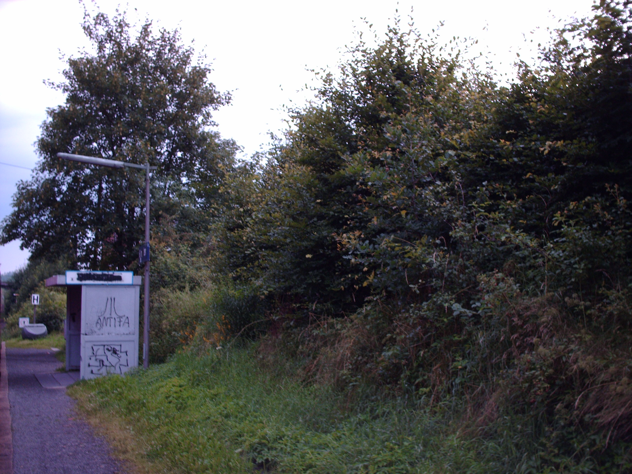 Hillnhütten station, Hilchenbach, Germany check usage